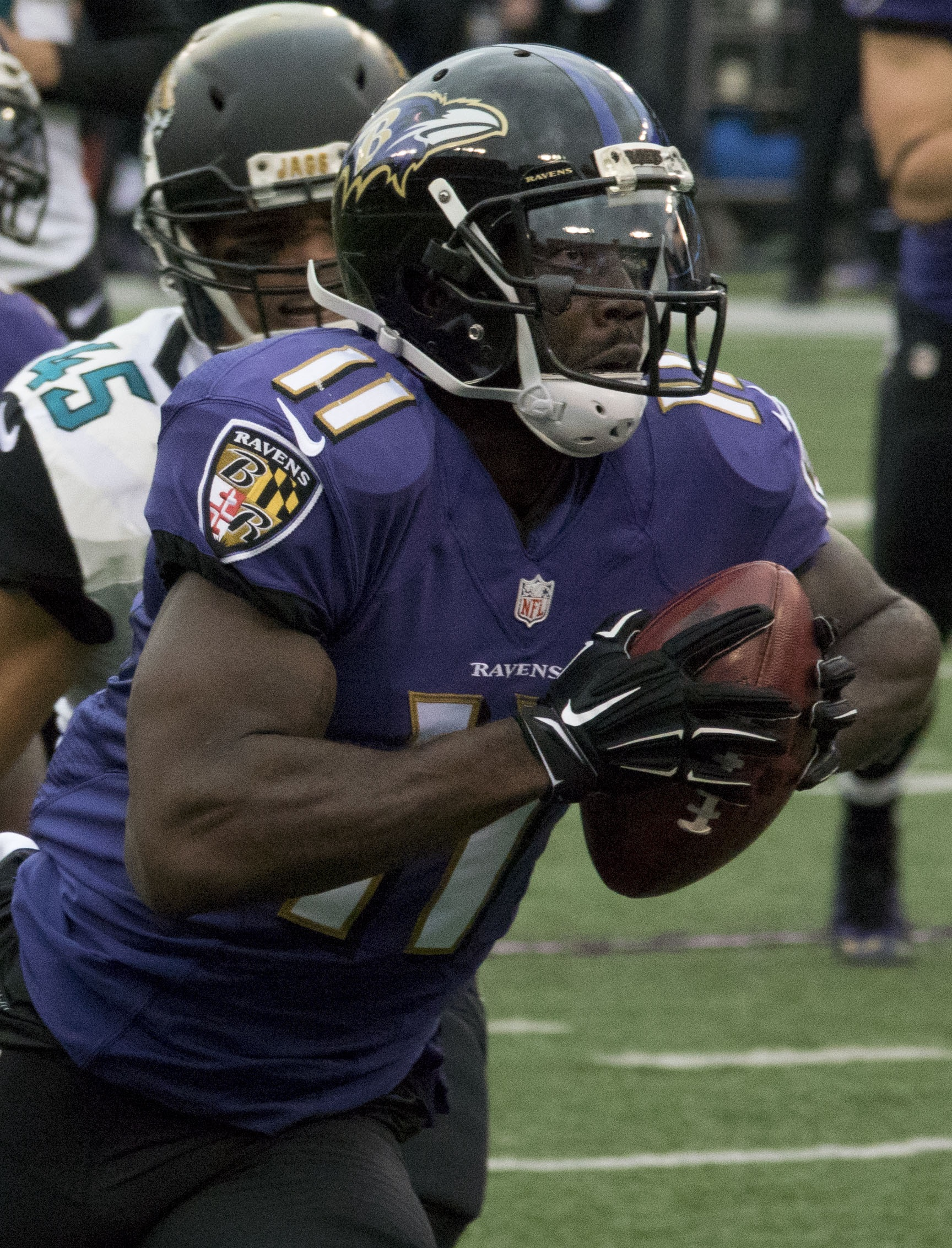 Jaguars at Ravens 12/14/14